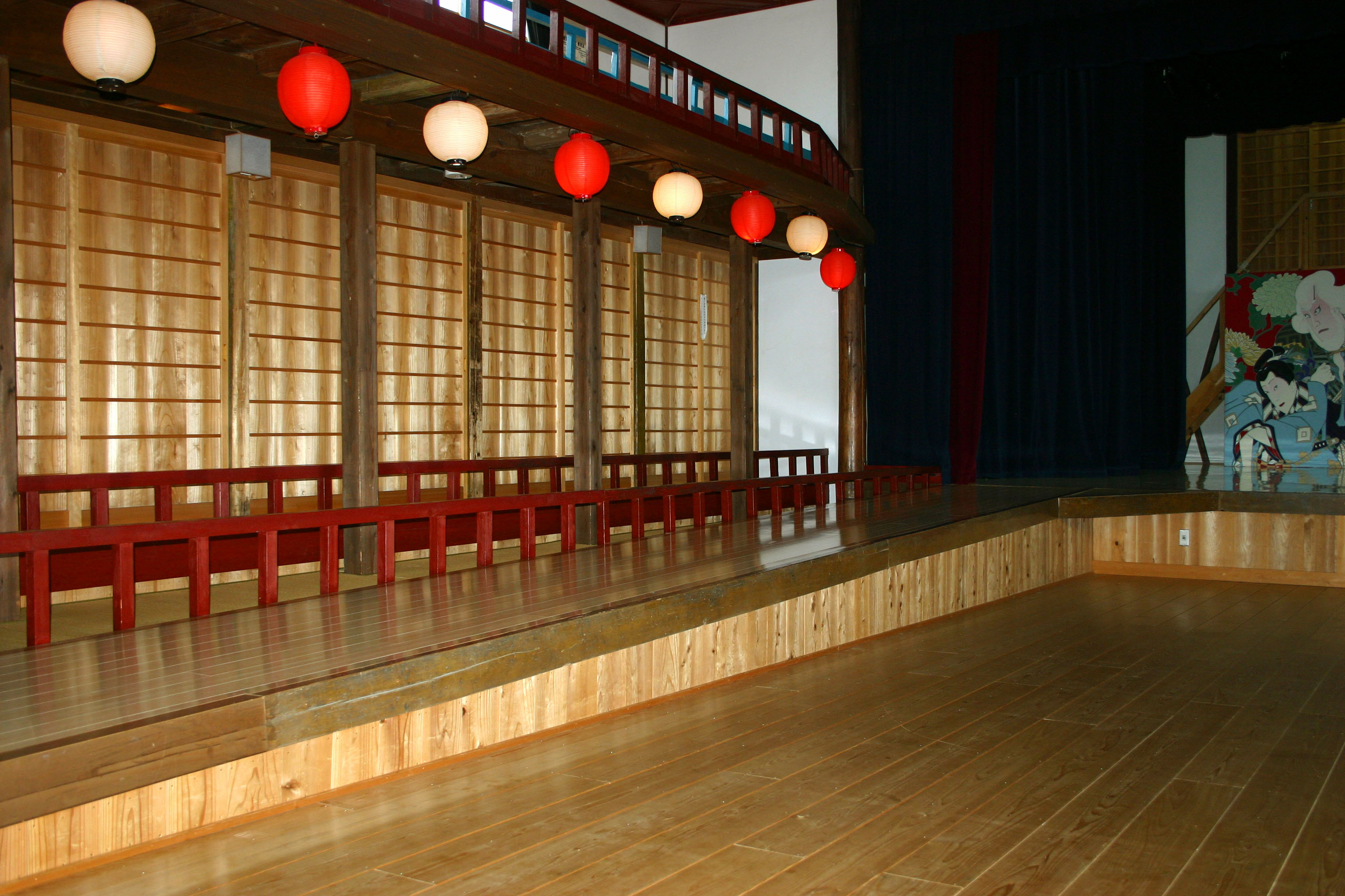 Hanamichi in Wakimachi Theater Odeonza in Mima-shi, Tokushima-ken